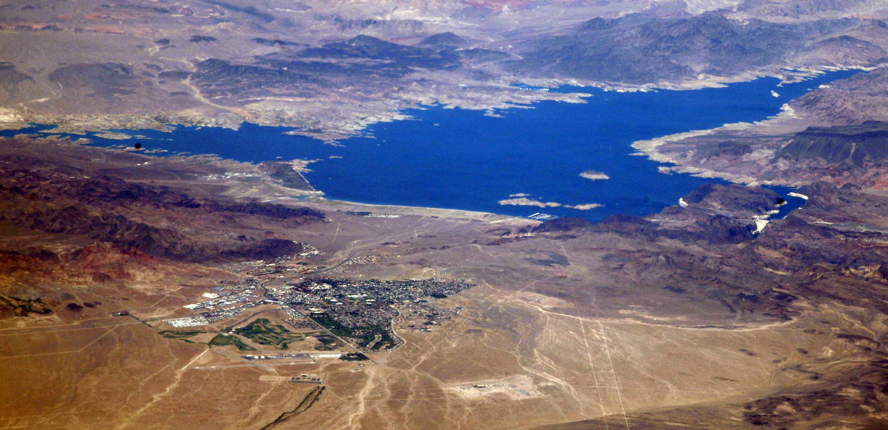 Lake Mead. Boulder City with its two golf courses and airport, is in the foreground. Hoover Dam is on the right.